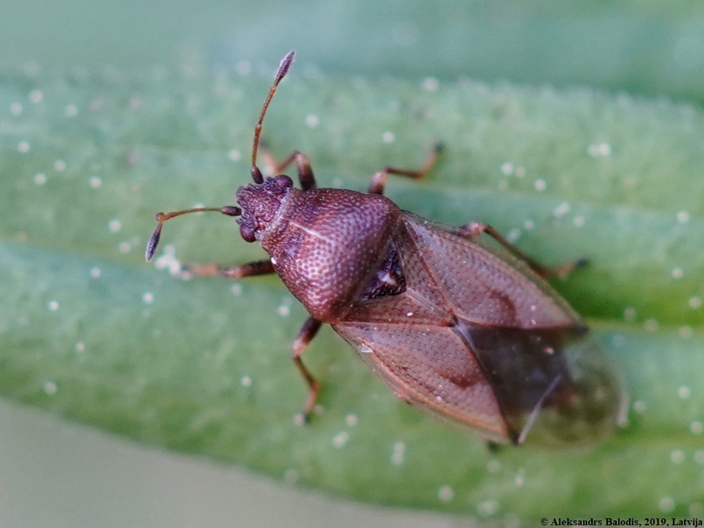 Cymus aurescens